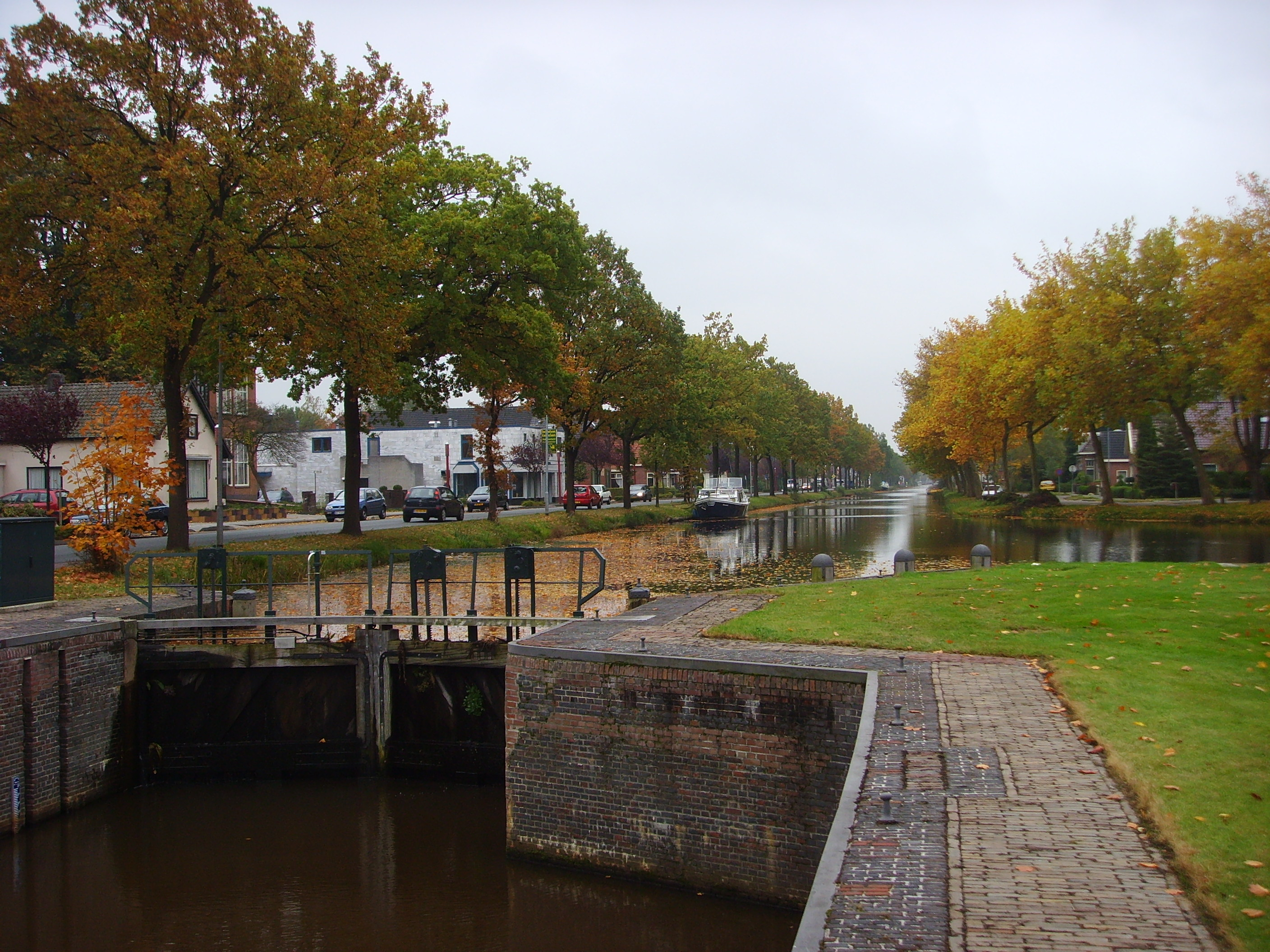 A picture of Musselkanaal, a town in the northeastern Netherlands.